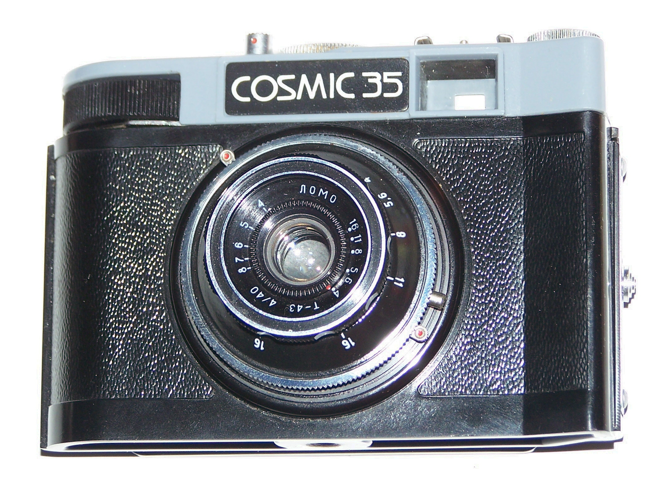 Please see filename above